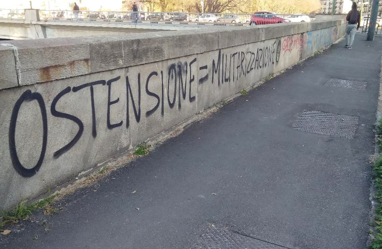 "OSTENSIONE = MILITARIZZAZIONE" ("Turin Shroud pubblic display = militarization"): graffiti in Turin, Italy (lungo Dora Savona)